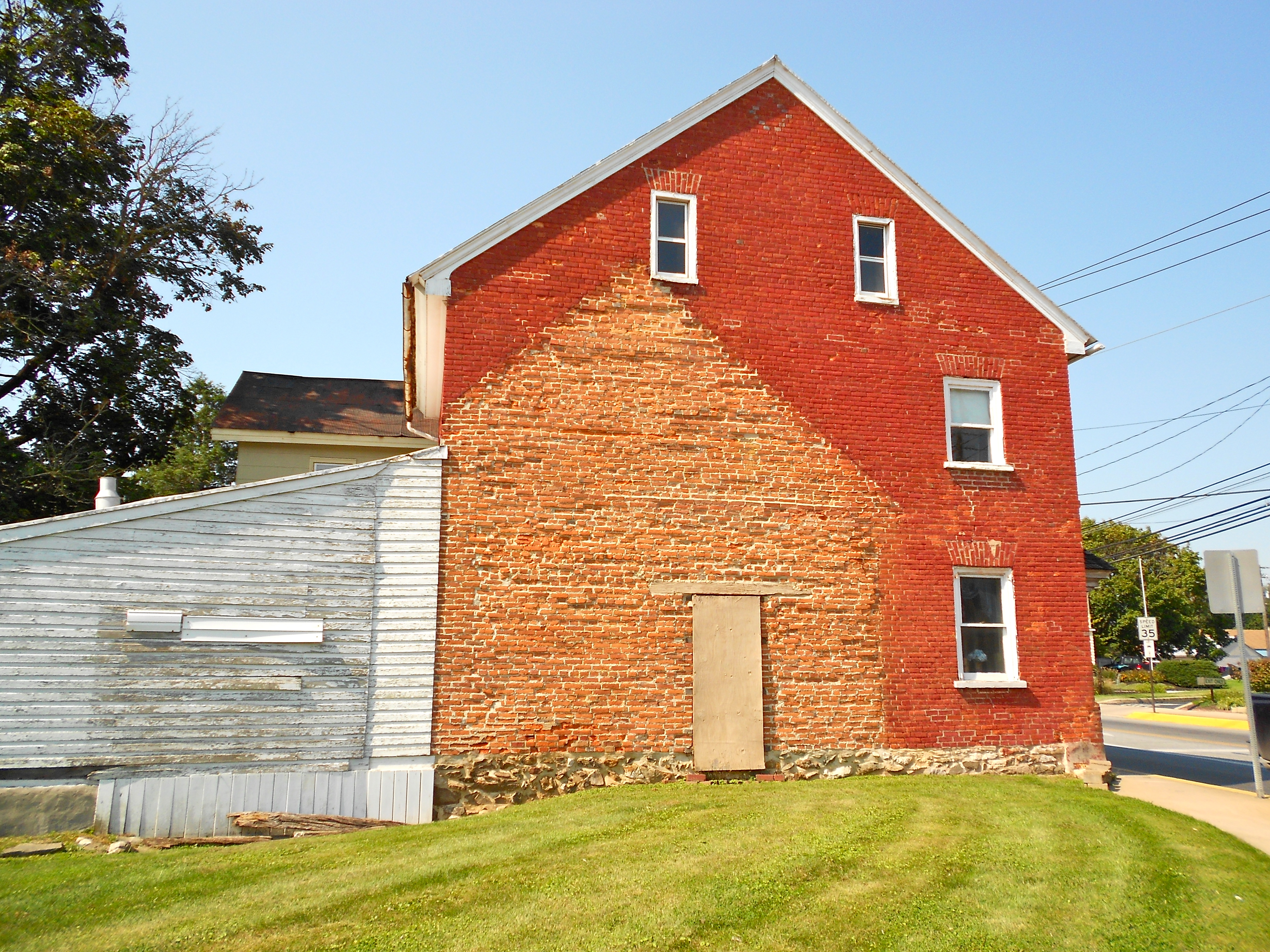 John Casper Stoever Log House House has been moved about 40 ft south and turned 90 degrees. The lot is for 200 West Main, the building next door is 204 W. Main. The "shadow matches the outline of the moved house.